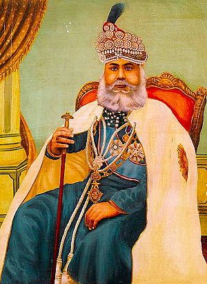 Maharaja Sawai Madho Singh II was the younger son of Maharaja Sawai Jai Singh III and sat on the throne, due to sudden death of his elder brother.